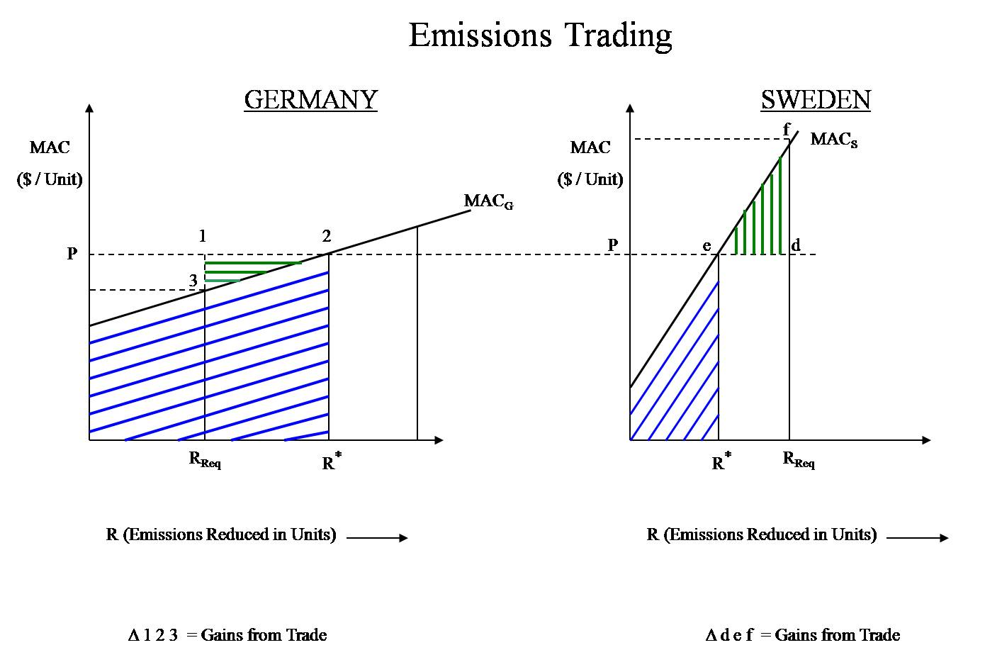 The Emissions Trading Economics of Two Participating Countries